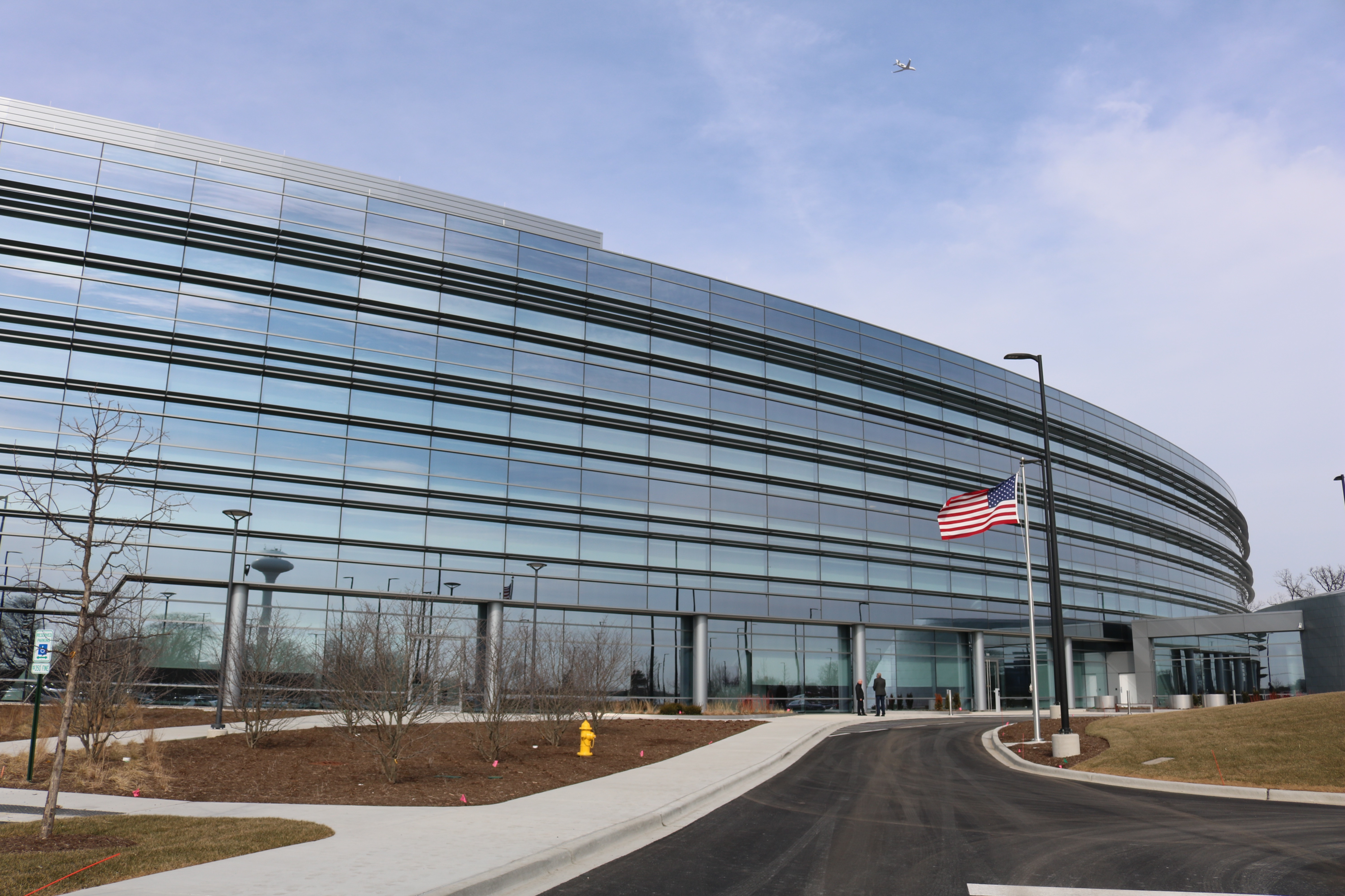 CGI relocated its global headquarters to Oak Brook, Illinois in February 2017 where it now conducts business in a brand new, state-of-the-art facility.